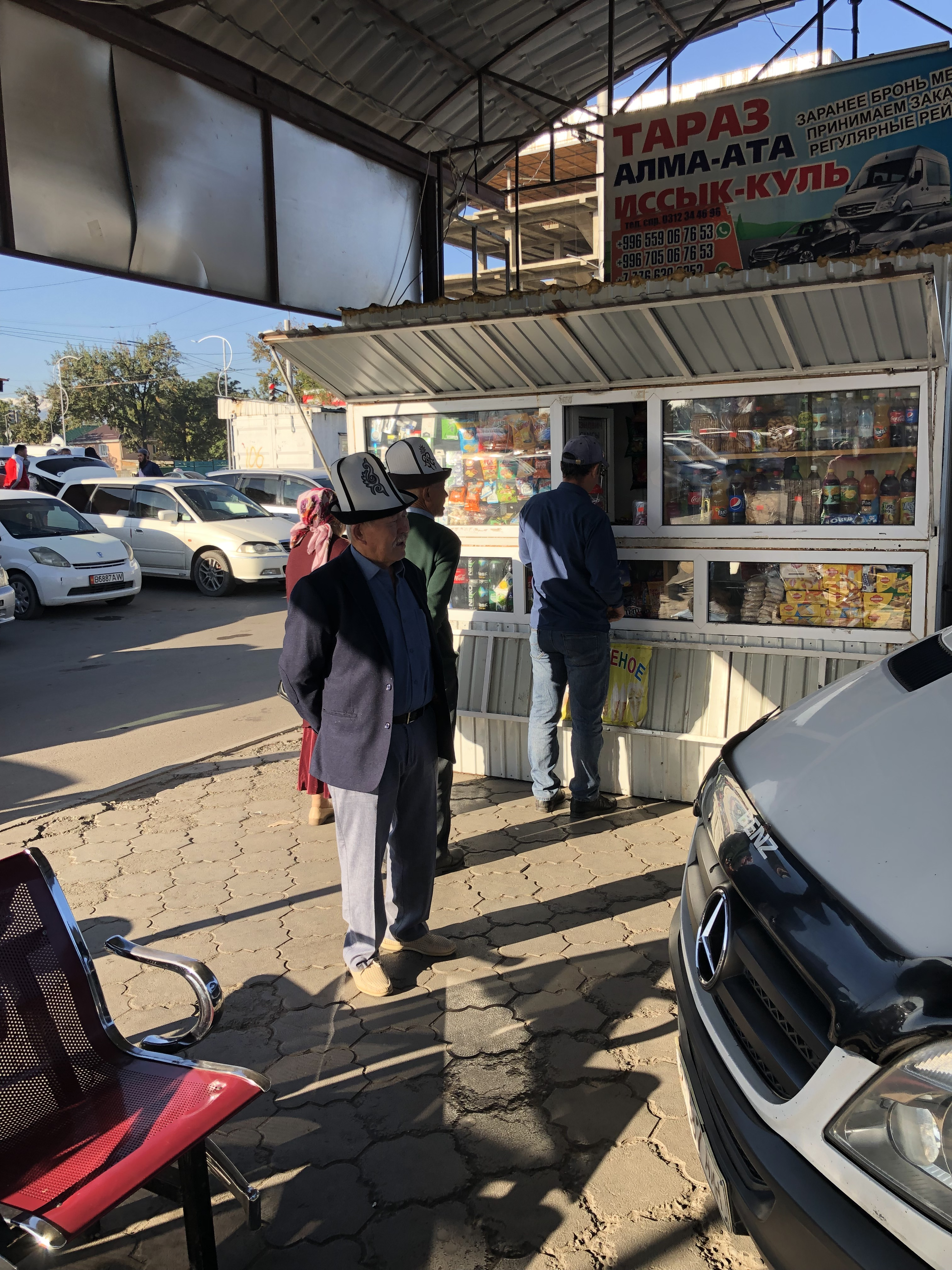 People of Bishkek